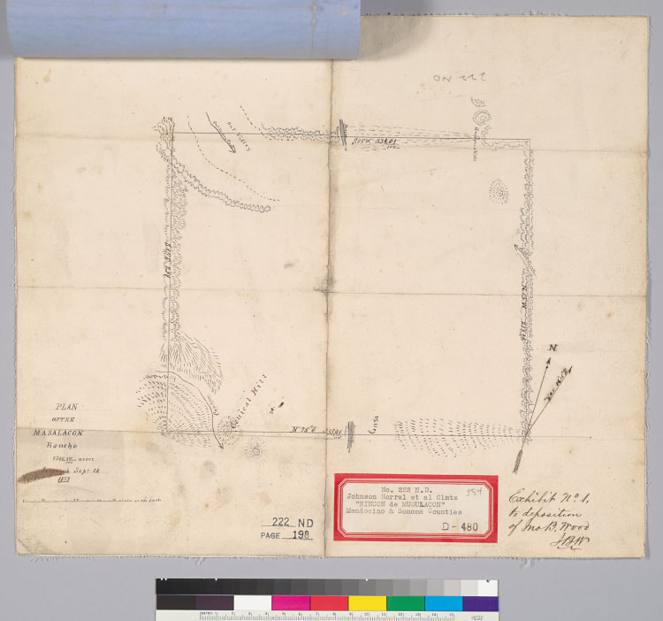 Pen-and-ink.Relief shown by hachures.4362 R565From: U.S. District Court. California, Northern District. Land case 222 ND, page 198; land case map D-480 (Bancroft Library). Johnson Horrell, et al., clmts."Exhibit no. 1 to deposition of Jno. B. Wood. JBW."Oriented with north toward upper right corner.Letter on blue lined paper dated Jan. 26, 1860, giving survey coordinates and signed by John B. Wood, County Surveyor of Sonoma County, attached to map at upper left corner.Rancho is in Sonoma County, not in Mendocino and Sonoma counties as stated on label attached to map.